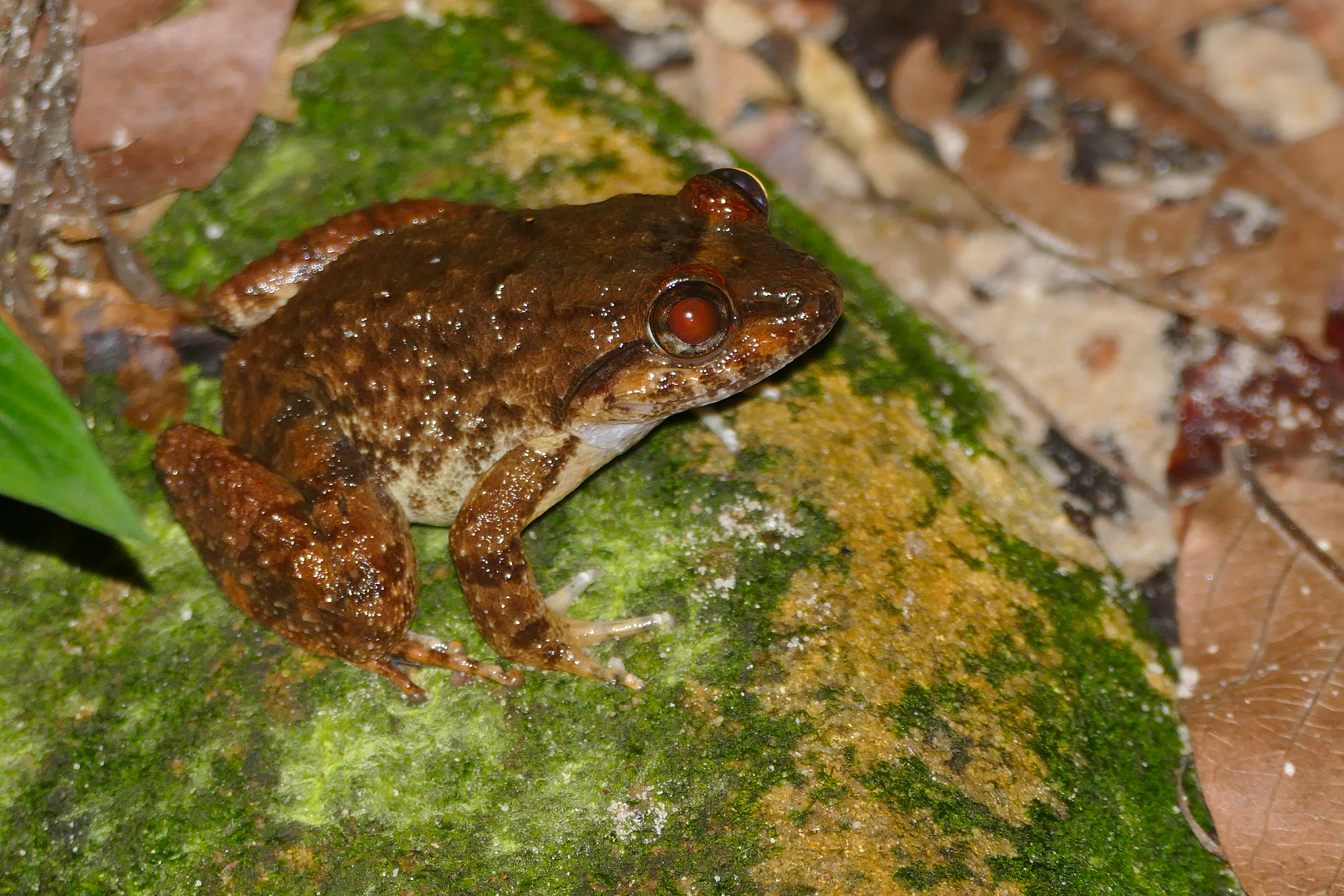 Permai Rainforest Resort, Santubong Peninsula, North of Kuching, Sarawak, MALAYSIA